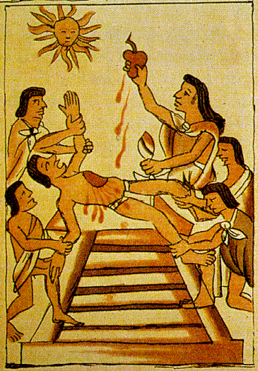 Aztec Human Sacrifice 10